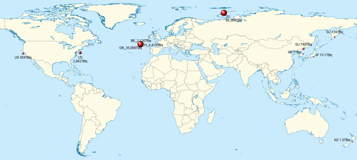 Country total at the major site. SU=Soviet Union (39,243TBq), GB=UK (35,088TBq), CH=Switzerland (4,419TBq), BE=Belgium (2,120TBq). France (354TBq), Germany (0.2TBq), Italy (0.2TBq), Netherland (336TBq), Sweden (3.2TBq) are within GB marker, Russia (2.8TBq) is within SU marker. US total 3,496TBq, Japan 15TBq, So Korea ?TBq, New Zealand 1+TBq. source=IAEA_tecdoc_1105